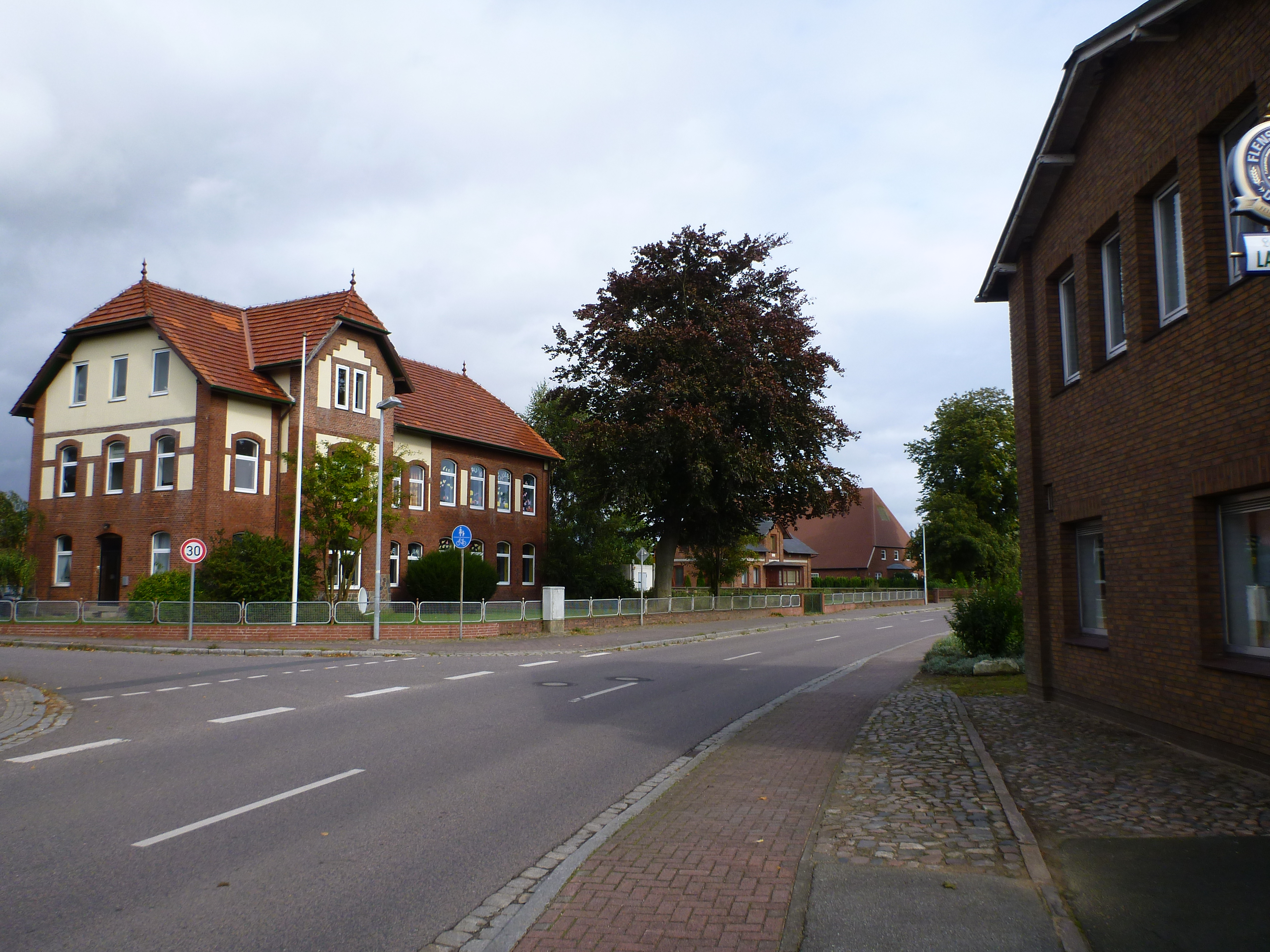 The primary school in Großharrie located at Preetzer Landstraße